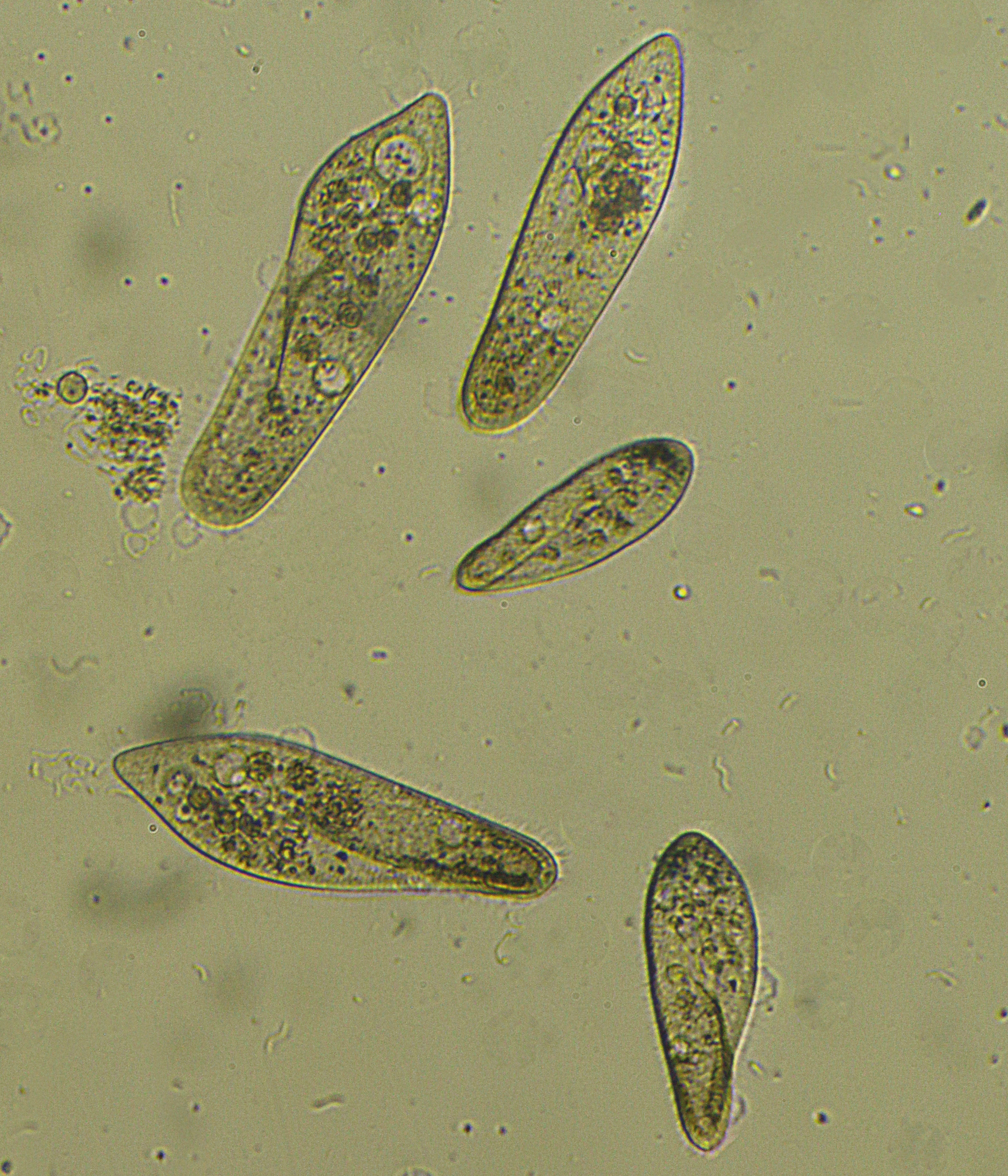 Group of Paramecium caudatum